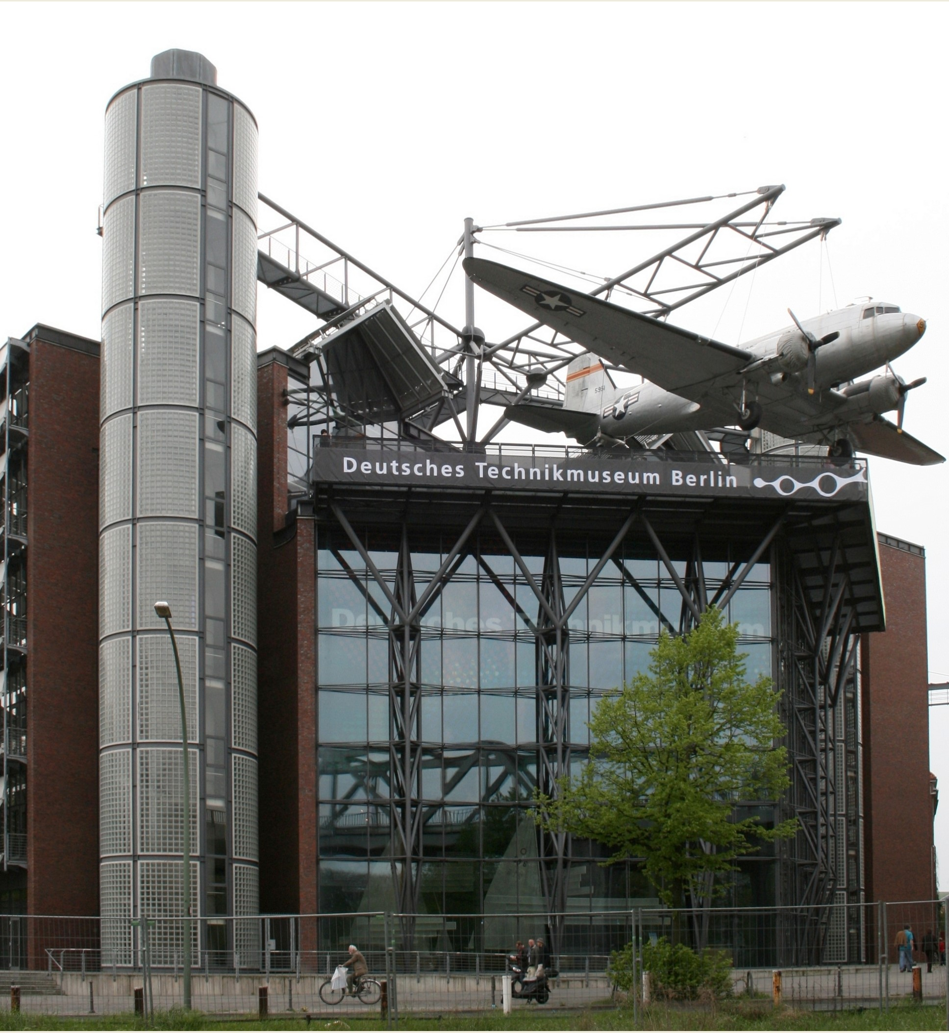 Deutsches Technikmuseum (German Museum of Technology), Berlin